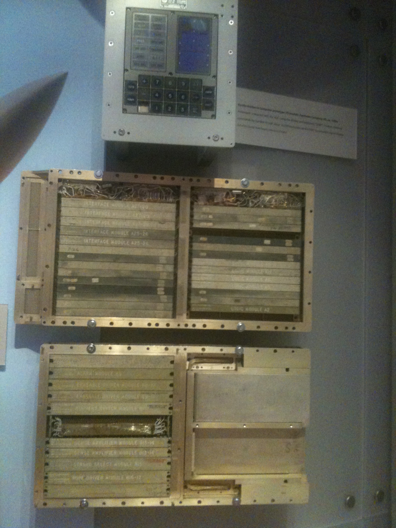 Apollo Guidance Computer with Display and Keyboard DSKY (above) on display at the Computer History Museum.